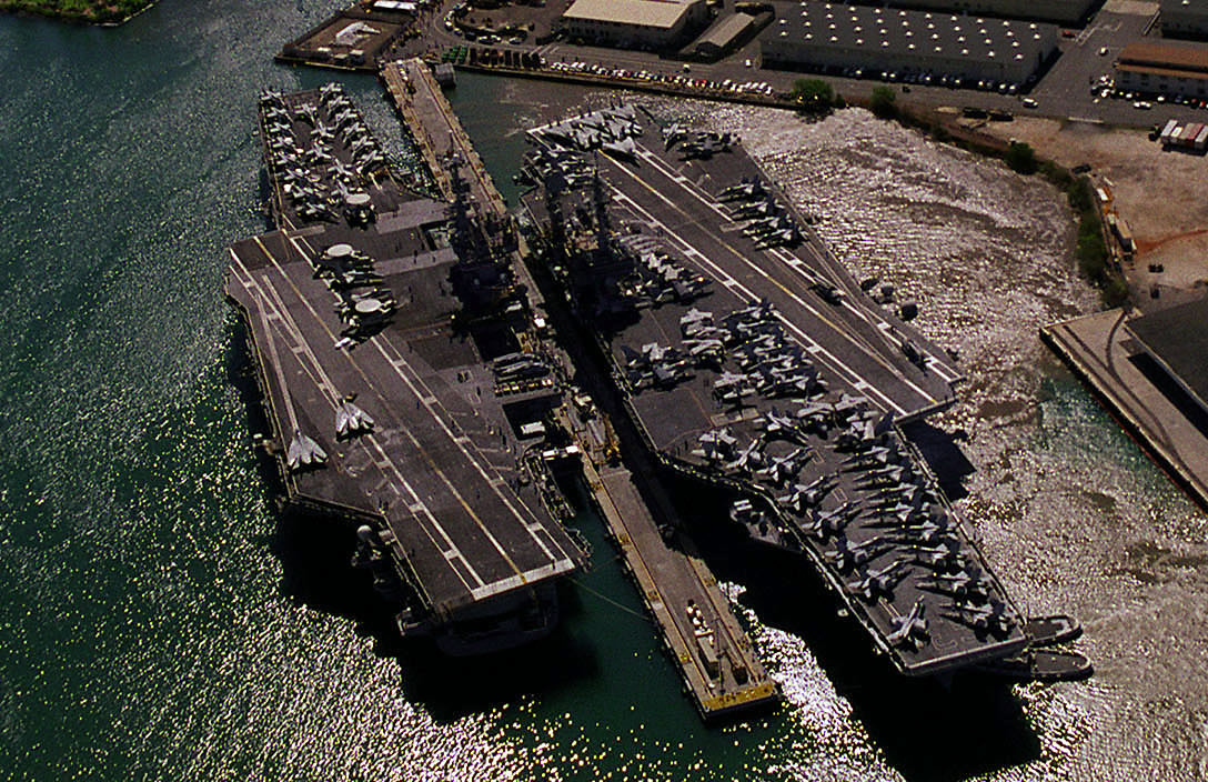 (Cropped Version) An aerial view of the aircraft carriers USS INDEPENDENCE (CV 62), left, and USS KITTY HAWK (CV 63), right, tied up at the same dock in preparation for the change of charge during the exercise RIMPAC '98. Location: PEARL HARBOR, HAWAII (HI) UNITED STATES OF AMERICA (USA) The USS INDEPENDENCE was on its way to be decommissioned, it was previously home ported in Yokosuka, Japan. The crew from the USS INDEPENDENCE cross decked onto the USS KITTY HAWK and brought it back to Atsugi, Japan. The USS INDEPENDENCE was destined for a ship yard in Washington.